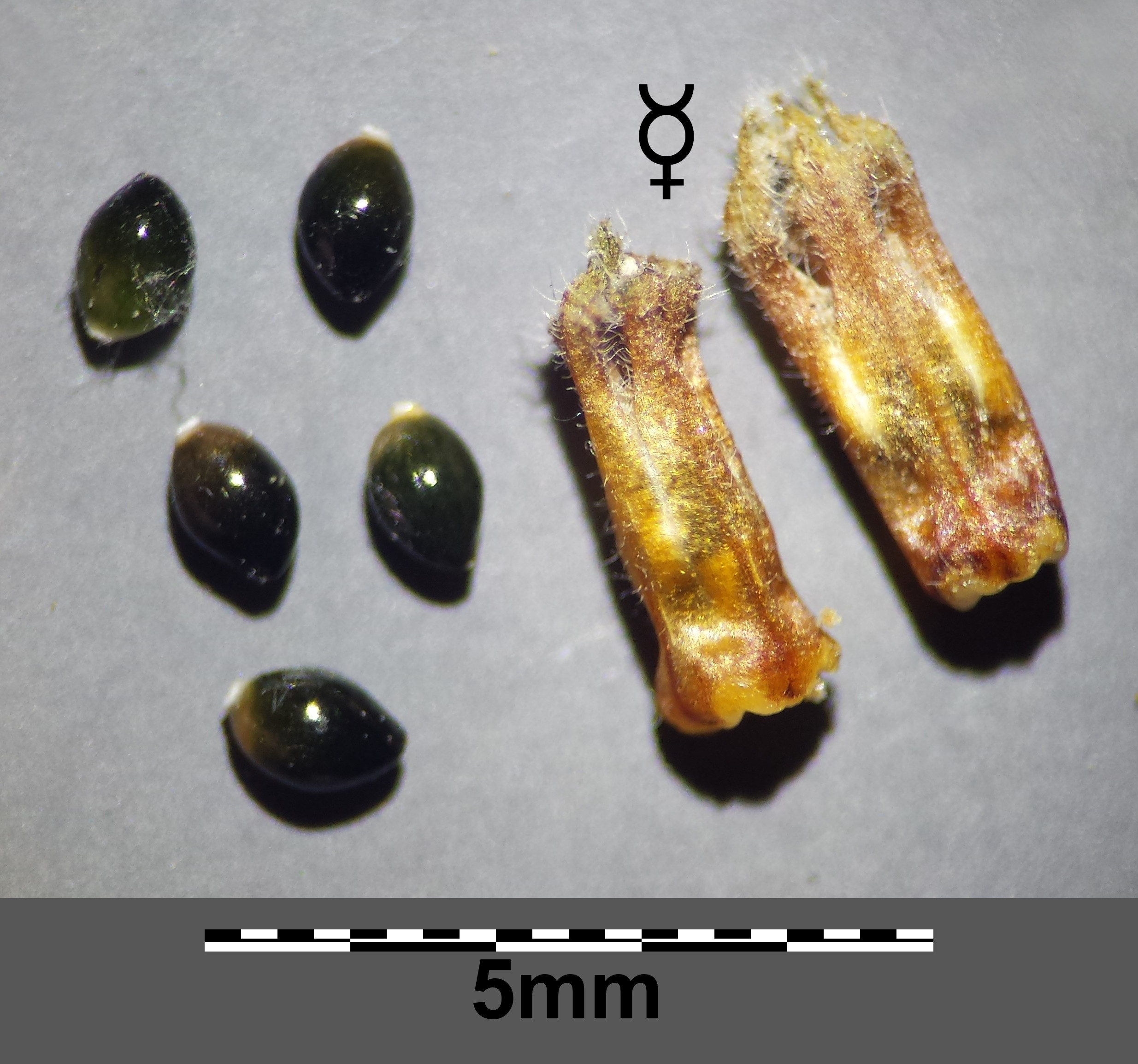 ☿ perianths and fruits Taxonym: Parietaria judaica ss Fischer et al. EfÖLS 2008 ISBN 978-3-85474-187-9 Location: Italienerschleife at Martha-Steffy-Browne-Gasse, Vienna-Floridsdorf - ca. 160 m a.s.l. Habitat: ruderal area under/next to railroad viaduct